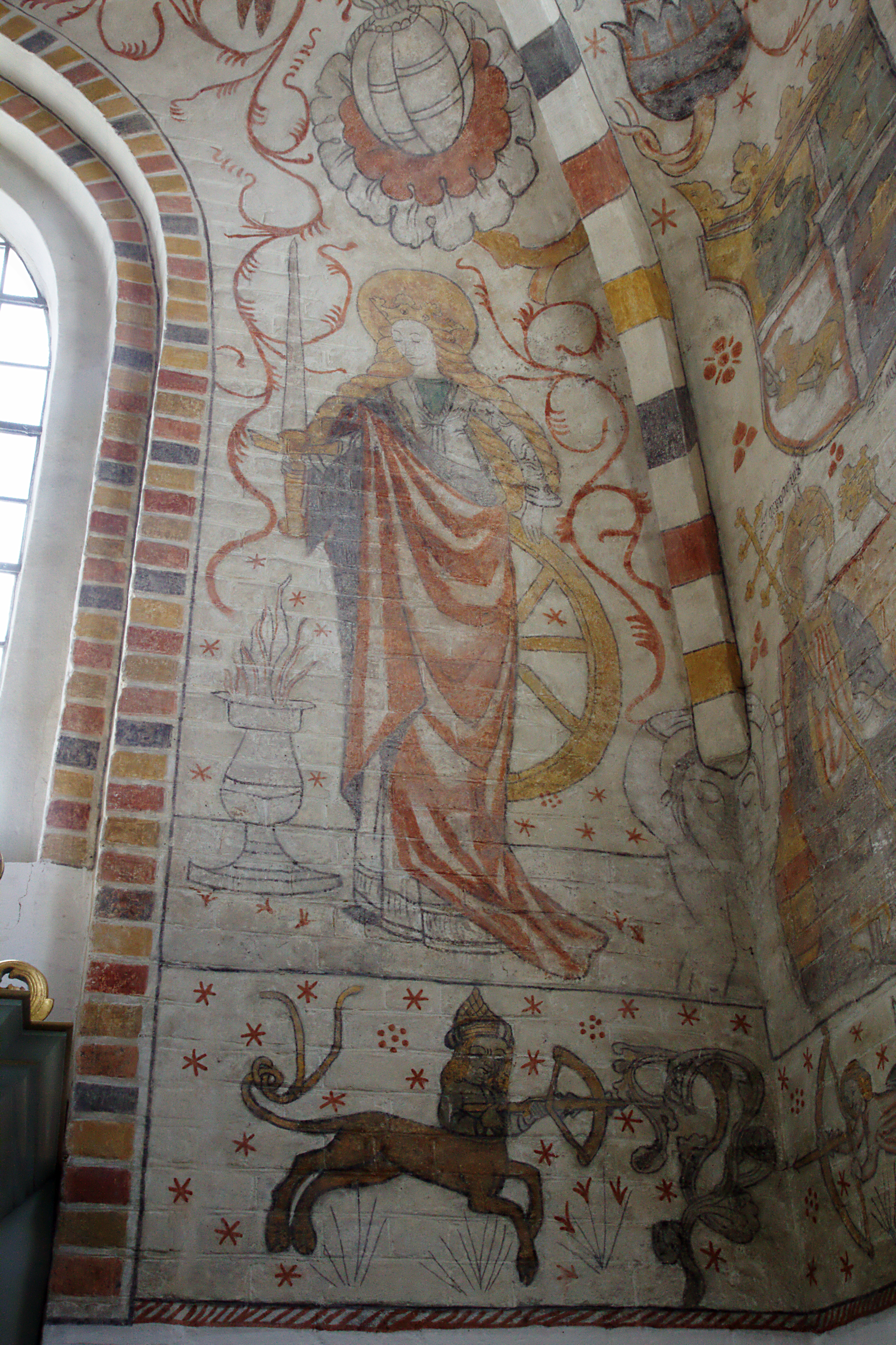 Fresco in Aalborg Domkirke